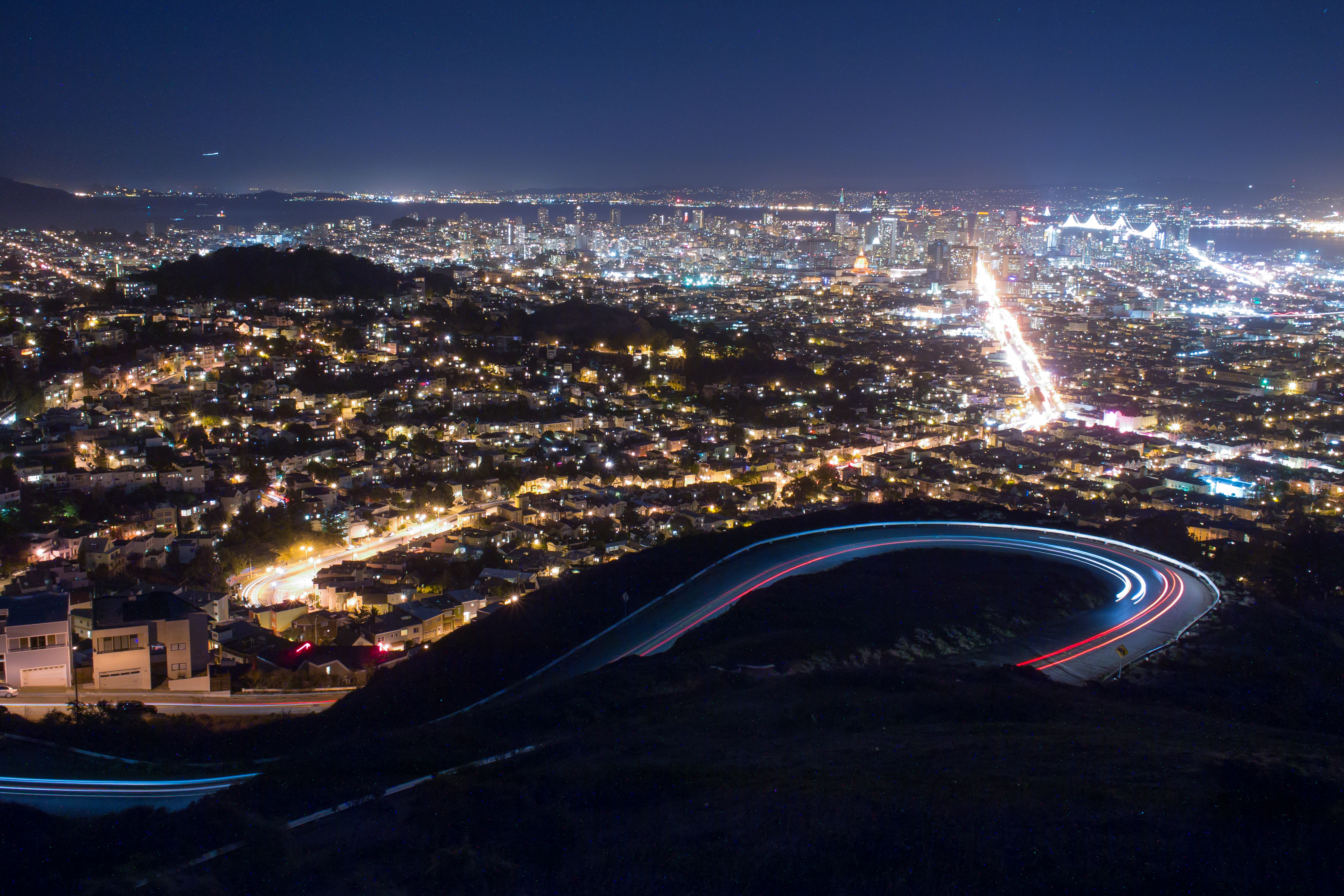 Long exposure of San Francisco taken from the Twin Peaks.